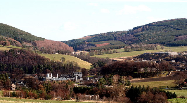 Glenfiddich Distillery Glenfiddich Distillery in foreground with Parkmore Quarry on right with road up through valley to Drumuir, taken from Dufftown to Aberlour footpath distance of approx 3kl. away